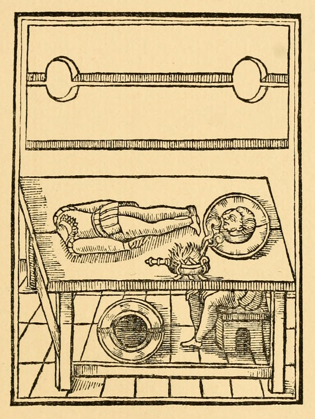 Illustration from the 1651 edition of The Discoverie of Witchcraft. "To cut off ones head, and to laie it in a platter, which the jugglers call the decollation of John Baptist. What order is to be observed for the practising heereof with great admiration, read page 349, 350."